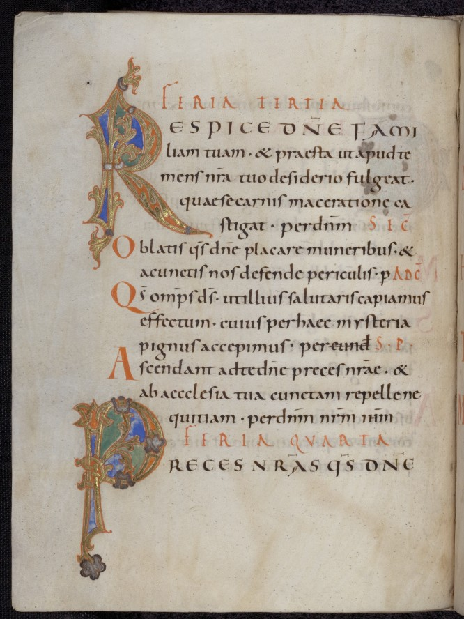 Illuminated page from the Petershausener Sakramentar (Cod. Sal. IX b) produced in the Benedictine Abbey of Reichenau on Reichenau Island.